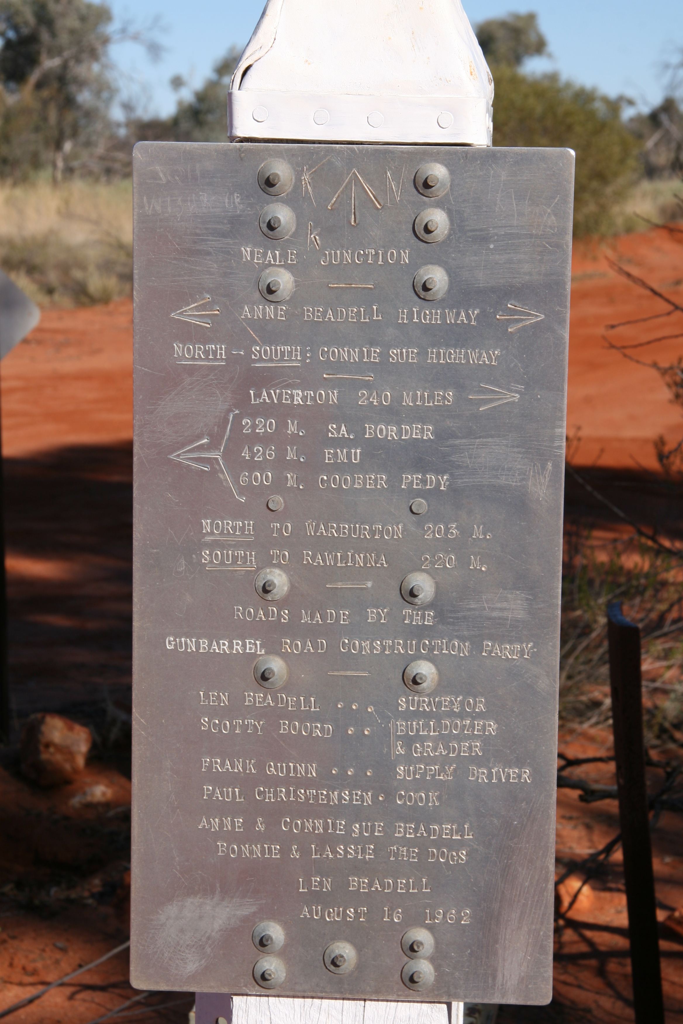 Len Beadell's original marker plate was erected by him 16 August 1962 at Neale Junction, which is the intersection of the Anne Beadell Highway and the Connie Sue Highway. This is a replacement made by Beadell, and installed in July 1993 by him. The inscription contains distances to Laverton, the South Australian Border, Emu, Coober Pedy, Warburton and Rawlinna. The names of his Gunbarrel Road Construction Party are listed, as well as his wife Anne, daughter Connie Sue, and two dogs, Bonnie which was Beadell's and Lassie which was Scotty's.